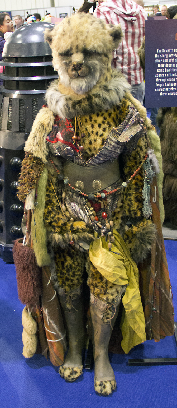 Doctor Who 50th Celebration Doctor Who Experience